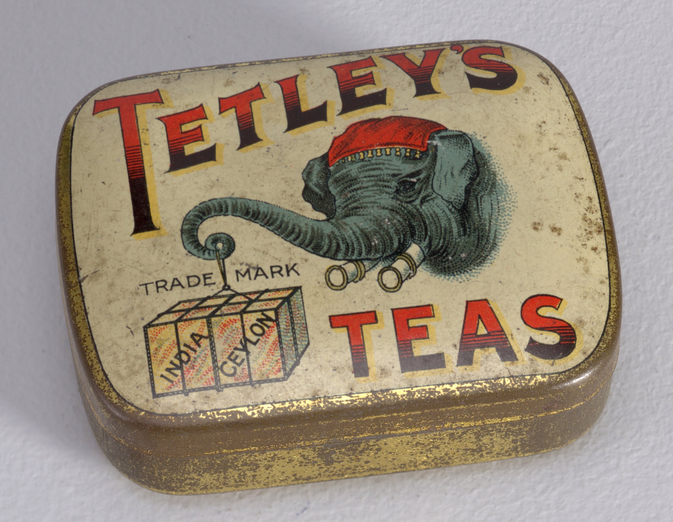 Rectangular, rounded corners, with transfer printed decoration on lid, inscribed "Tetley's Teas" in large red and black type-face, highlighted in yellow, featuring central image of blue elephant's head with red kerchief, elephant holds at end of curled trunk box on a string, box inscribed "Indian Ceylon," above box inscription reads "Trade Mark," all on off-white ground, edges, sides and underside gold. Lid hinged at back. Striker on underside.